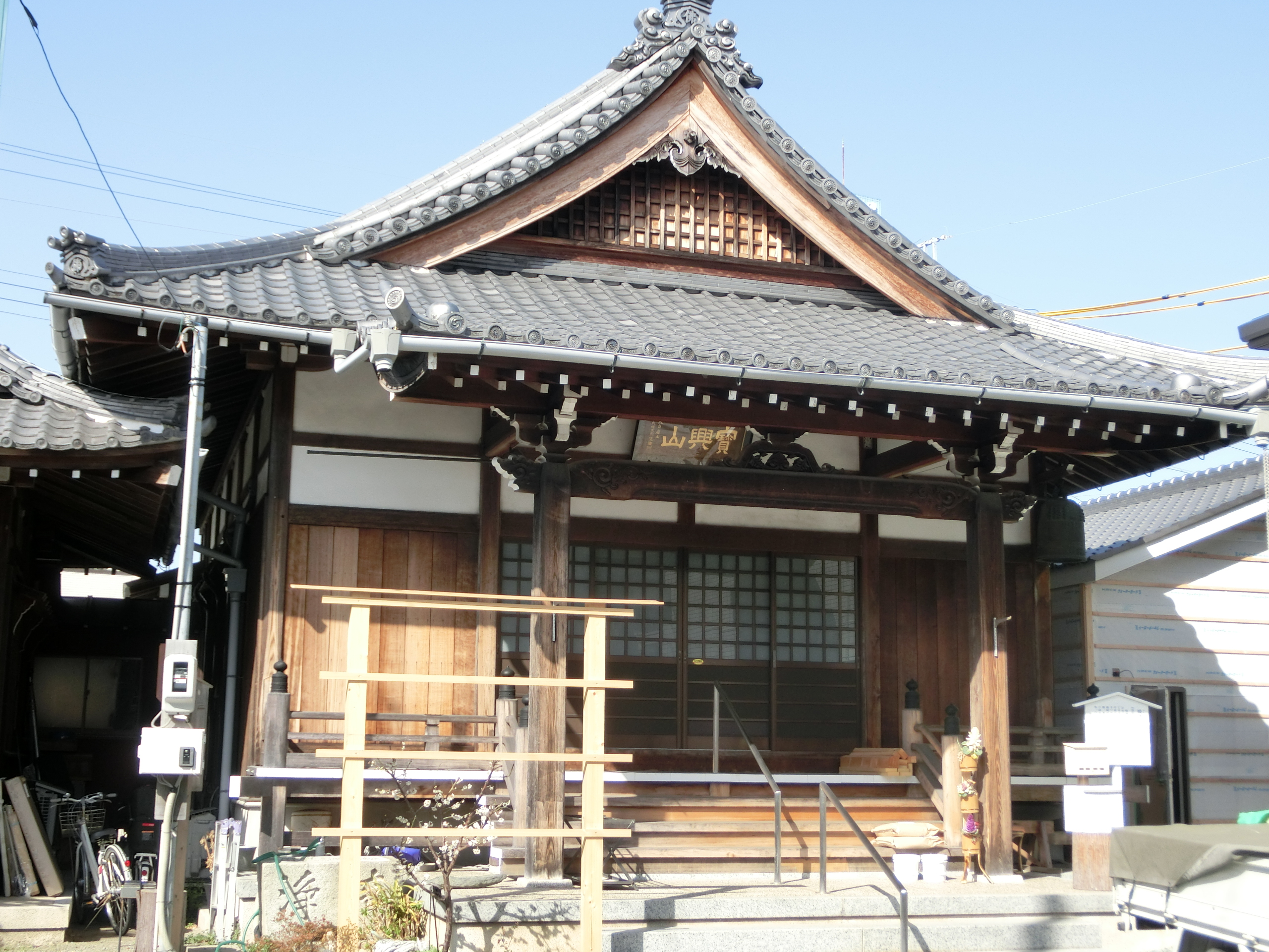 Butsugen-in (Kuwana)